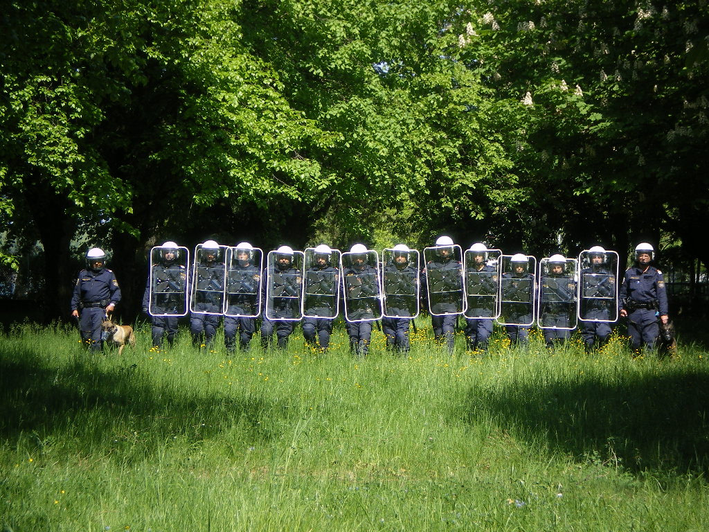 Members of the Einsatzeinheit Vorarlberg, a riot-control group of the austrian federal police in the federal state of Vorarlberg. Picture taken during a training for the UEFA Euro 2008.